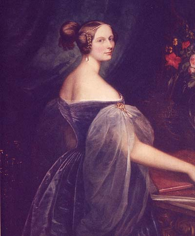 Grand Duchess Elena Pavlovna of Russia, née Princess Charlotte of Württemberg